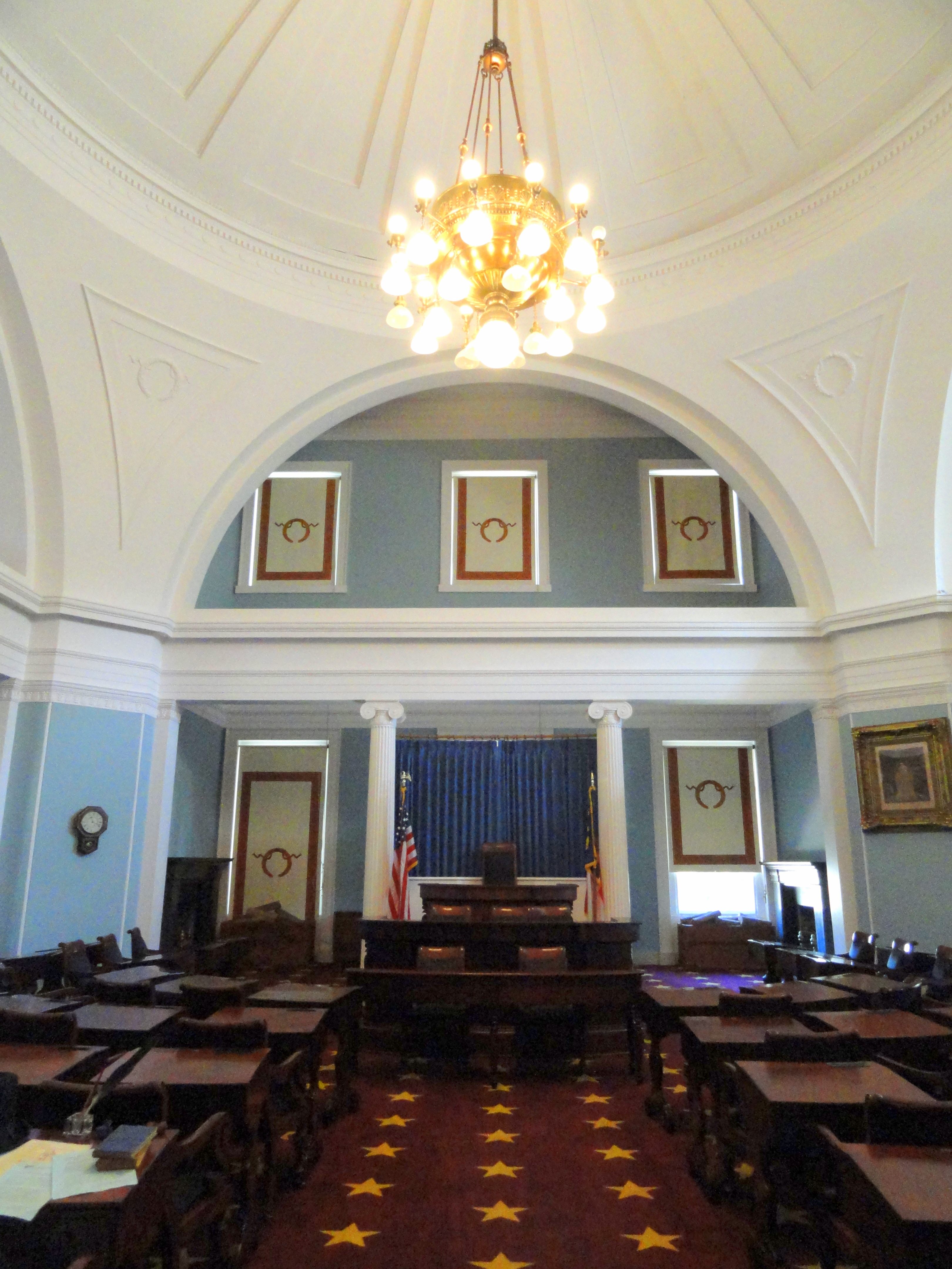 Senate chamber — North Carolina State Capitol. Raleigh, North Carolina.